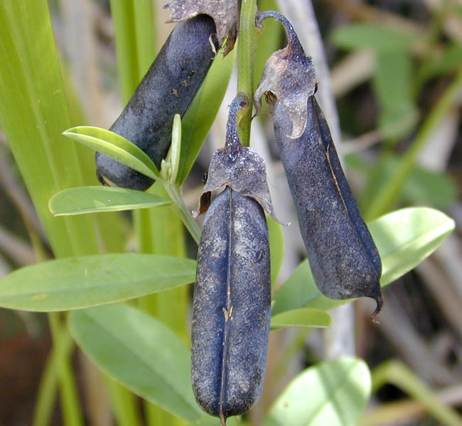 Mature pods of the rattlepod, Crotalaria retusa, photographed on O‘ahu in the Hawaiian Islands by Eric Guinther.